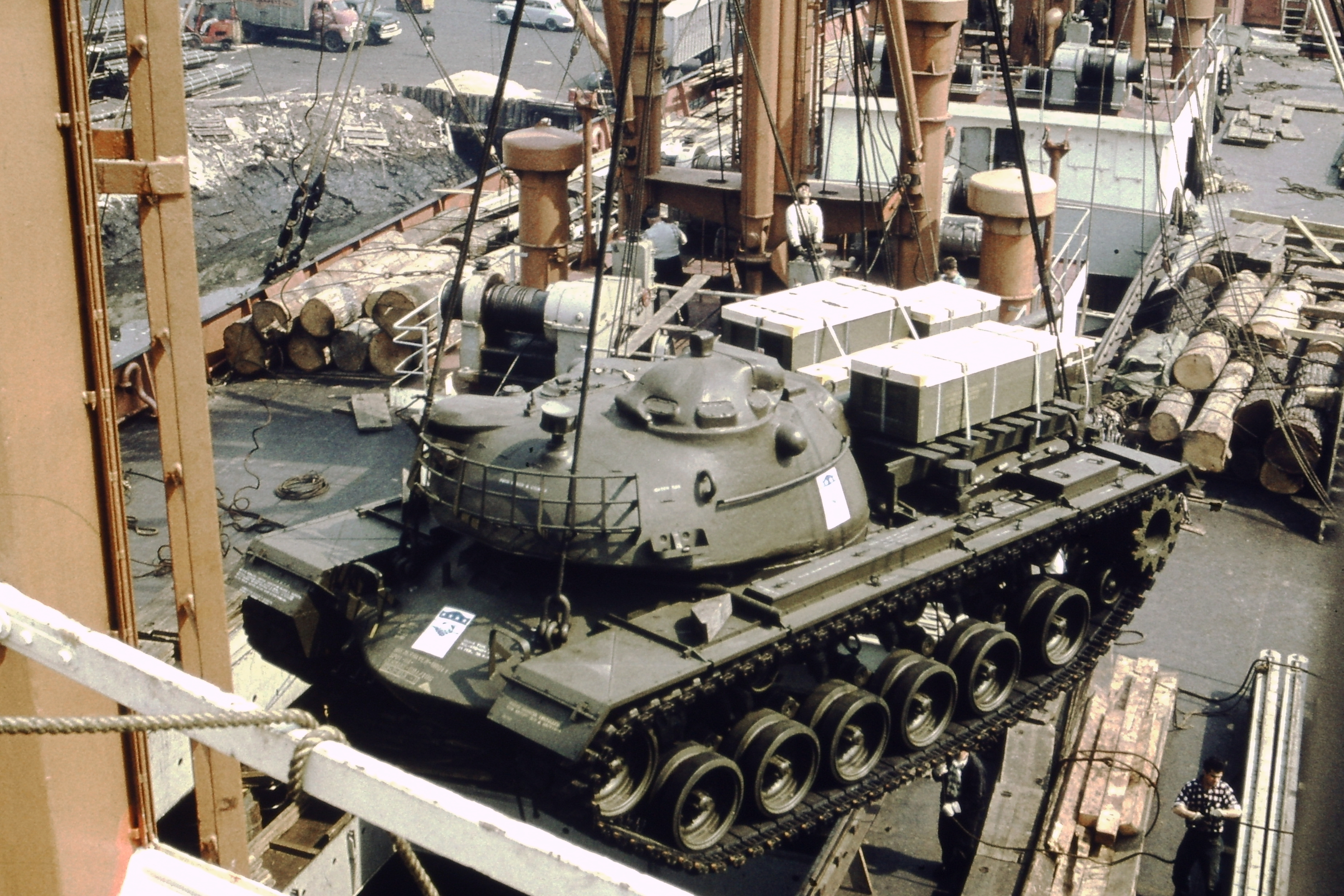 The M48 Patton tank is lifted gently aboard of TS Nabob, New York - 1959